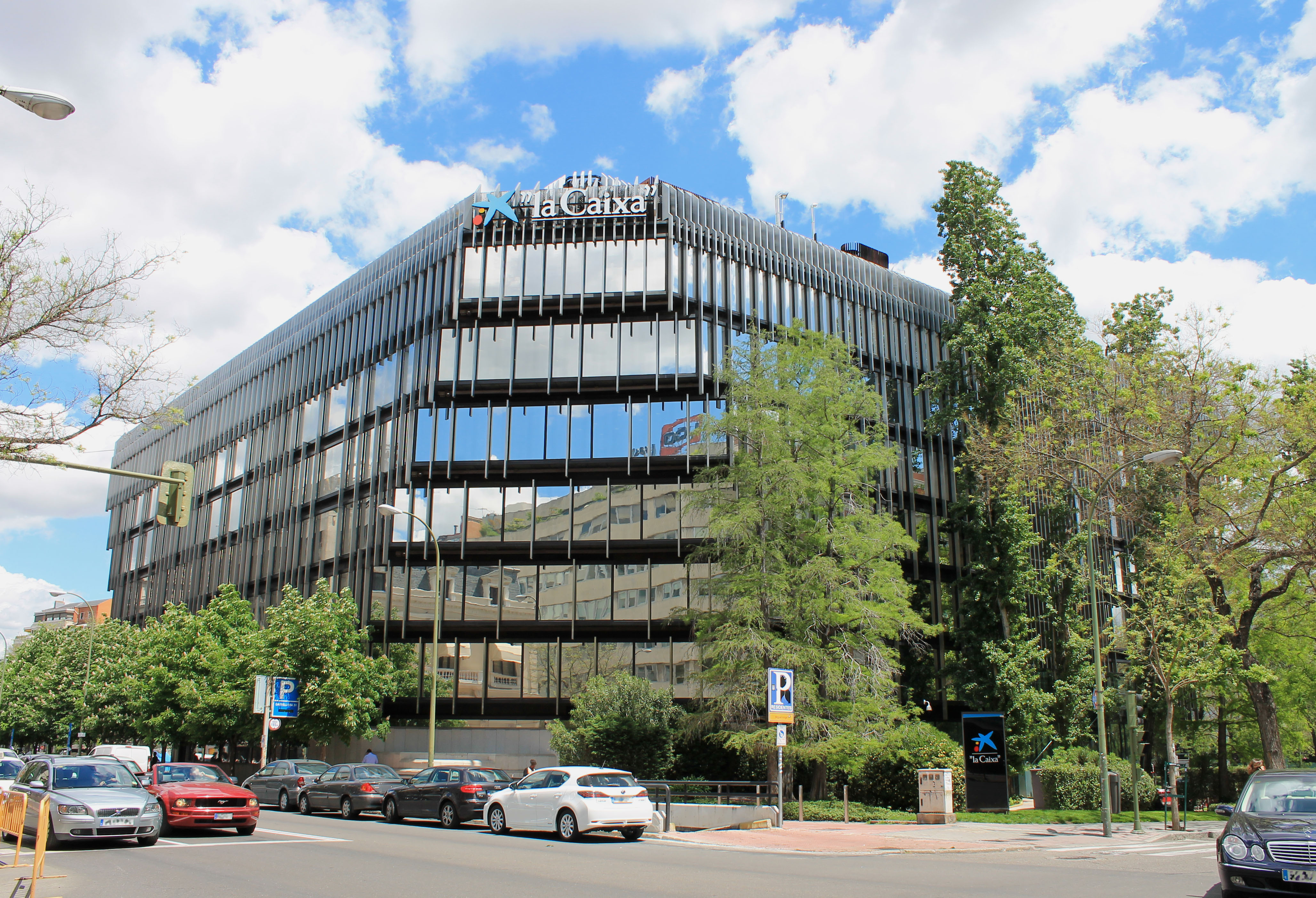 Façade of La Caixa building in Madrid (Spain).